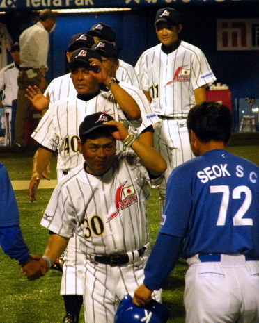 Tamotsu Enomoto (manager, 30) and Atsuyoshi Otake (coach, 40) at the 2010 World University Baseball Championship.